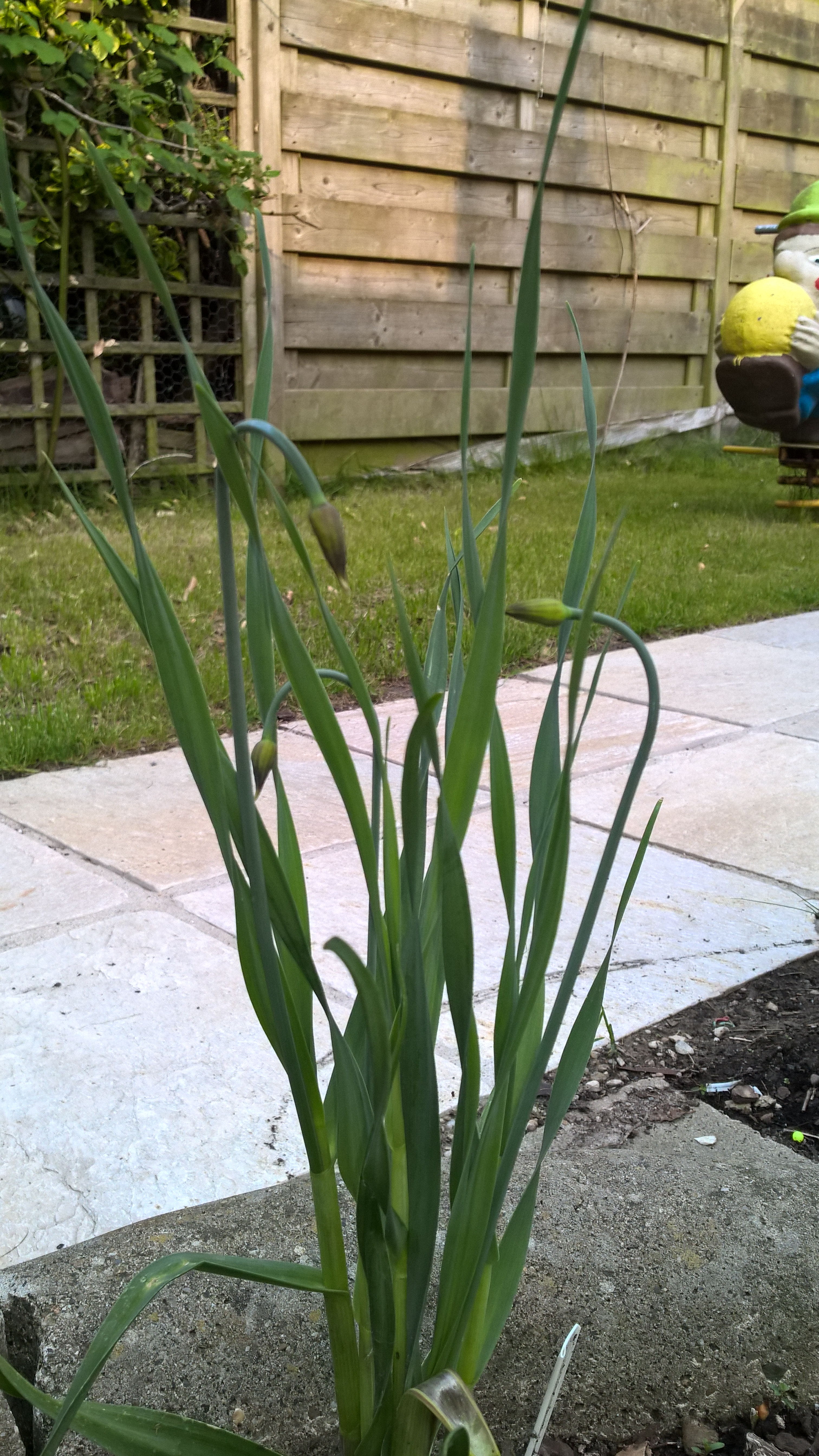 lop-sided onion